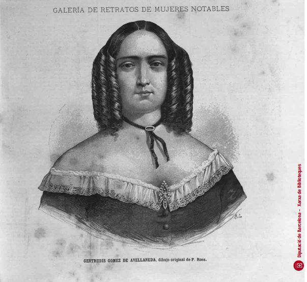 Ilustración de la Mujer Revista número 9